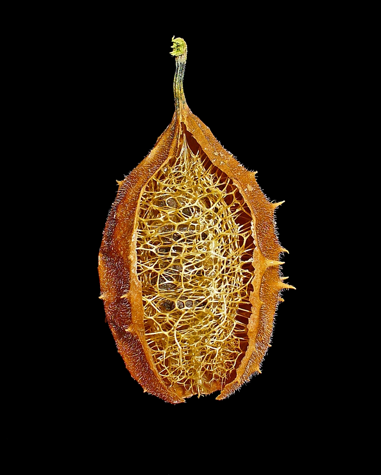 Luffa operculata, Cucurbitaceae, Esponjilla, dried fruit, opened.